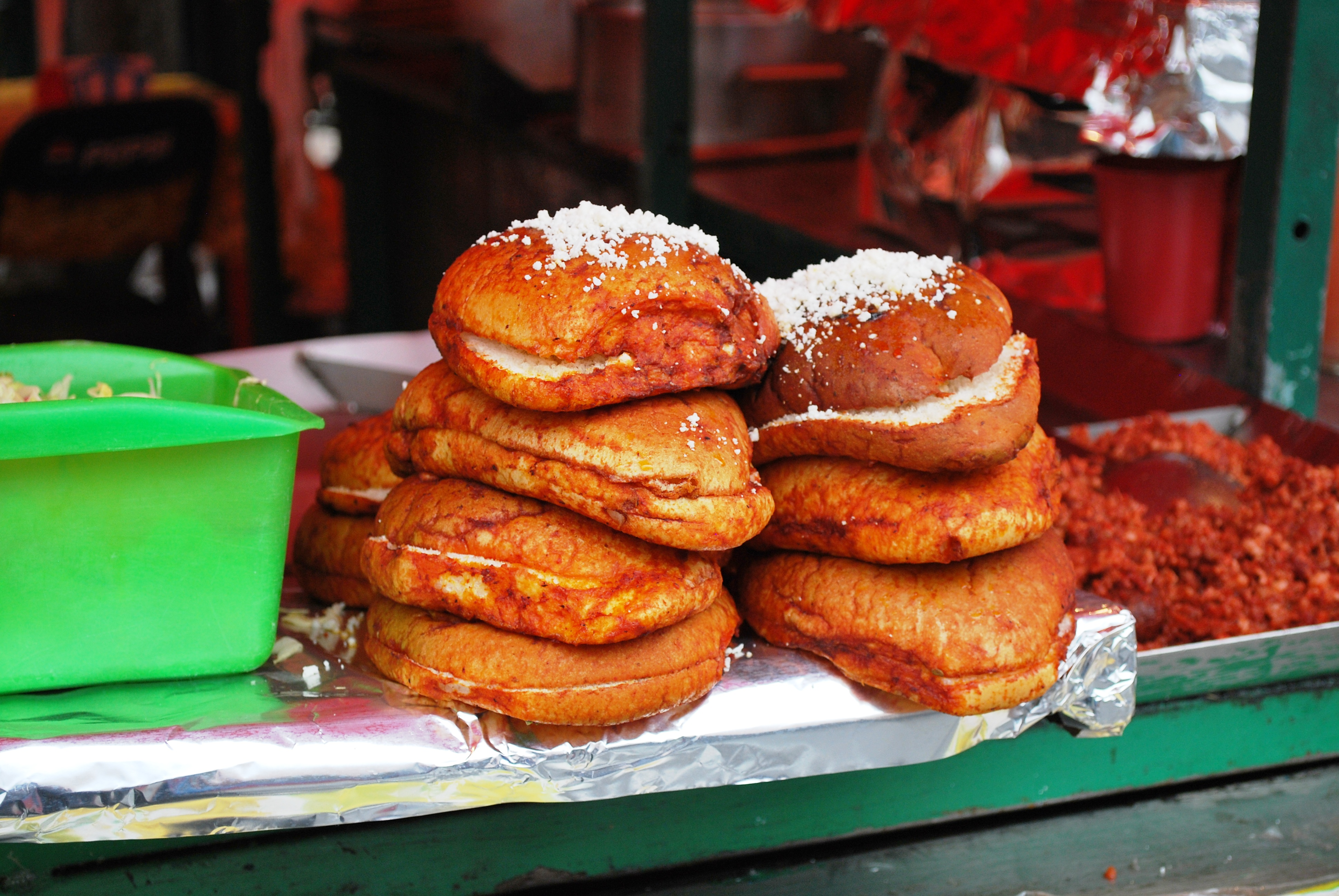 "Pambazos" shredded meat on a bun soaked in chili sauce generally sold on the street in Mexico. These were offered for sale outside the Plaza de Toros in Mexico City